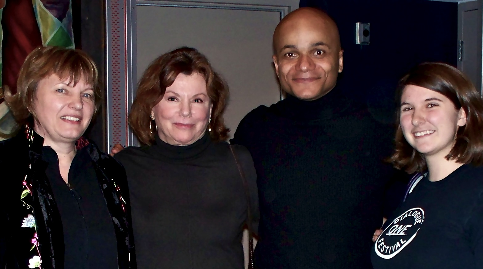 Actors Marsha Mason and Omar Sangare at Dialogue ONE Theatre Festival with the Festival's staff